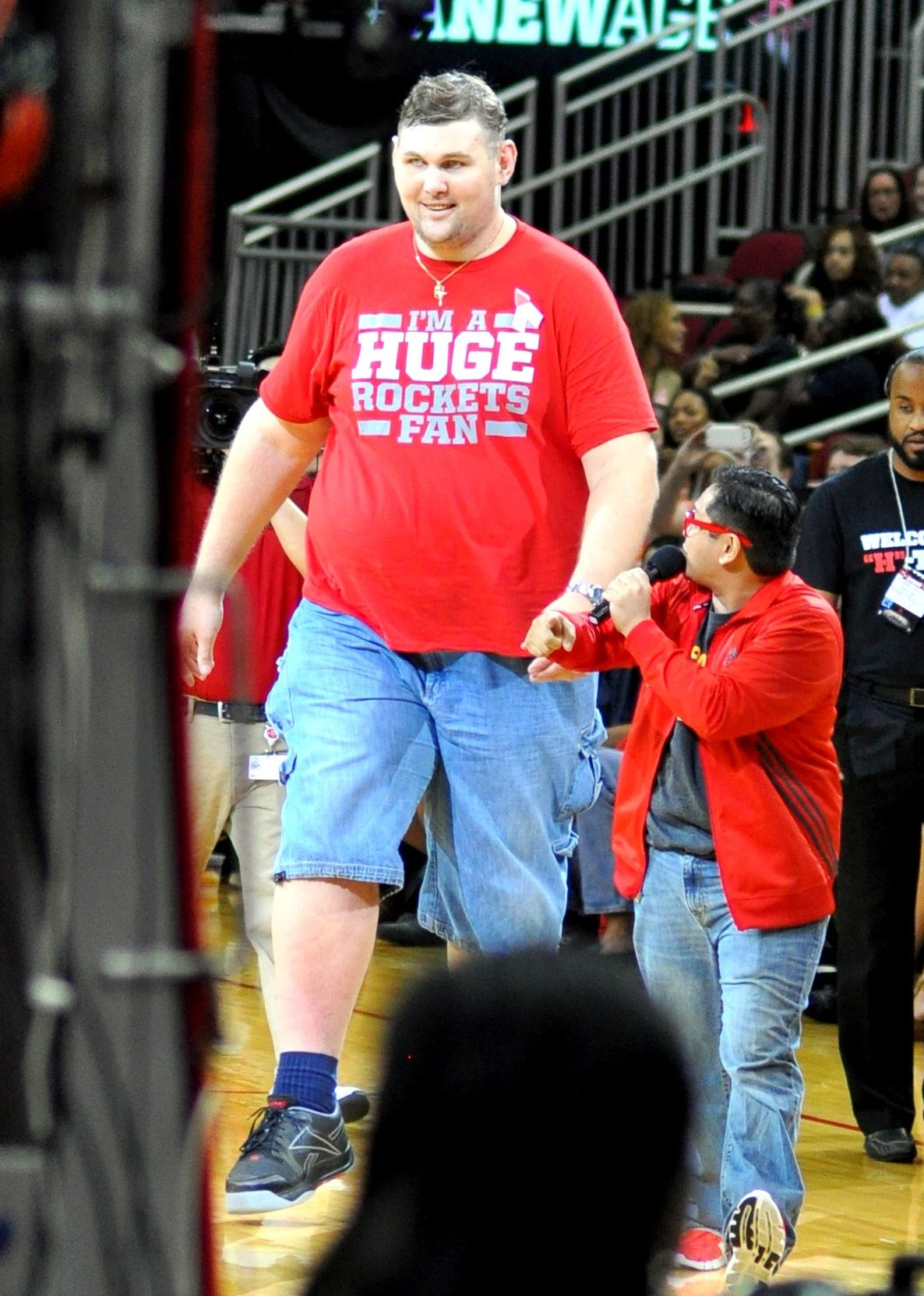 Igor Vovkovinskiy, the tallest person in the United States, participates in halftime festivities during an NBA preseason basketball game between the Houston Rockets and the New Orleans Pelicans, Oct. 5, 2013, at the Toyota Center in Houston, Texas.